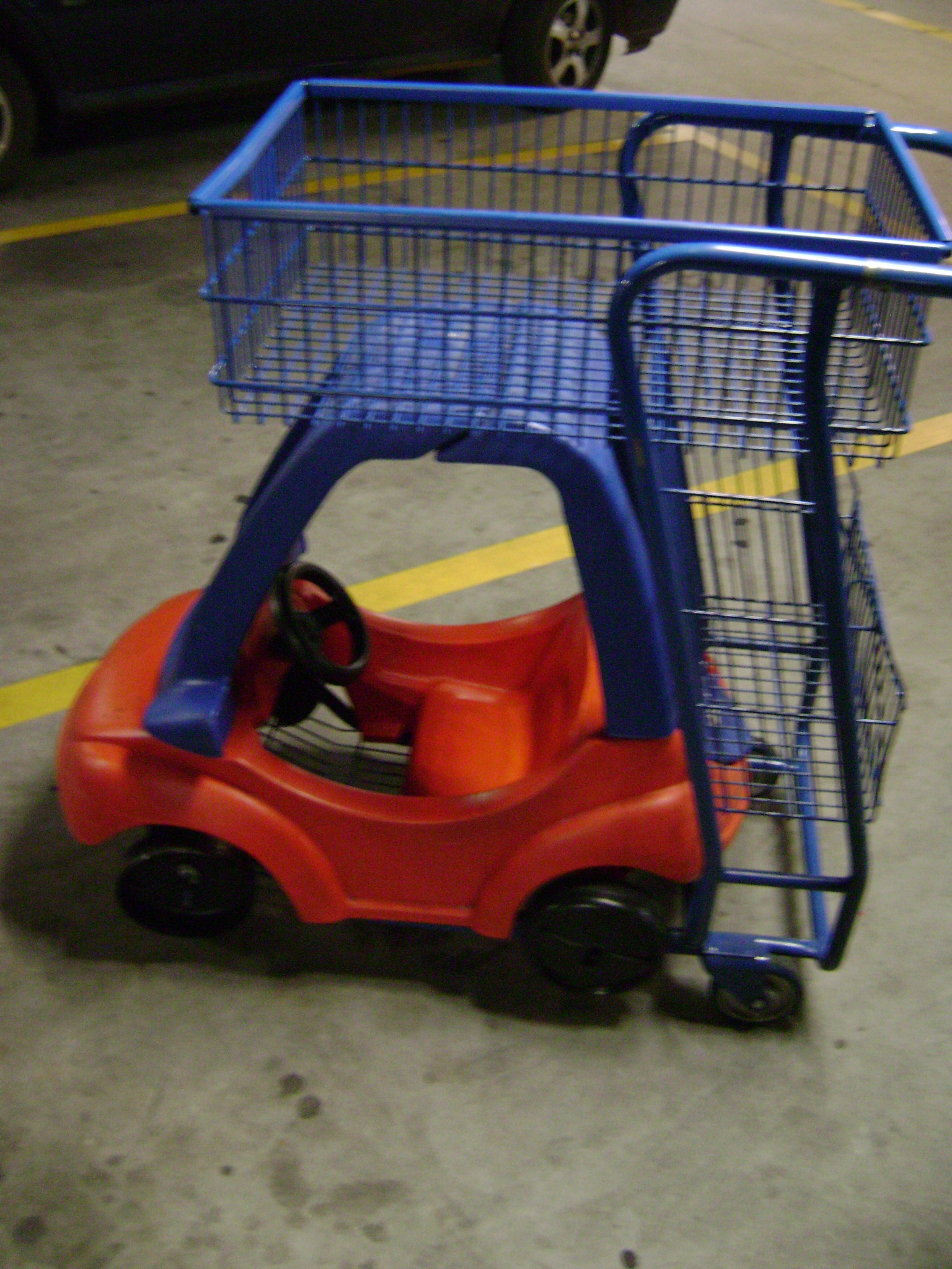 Carrinho de supermercado adaptado para levar menores.